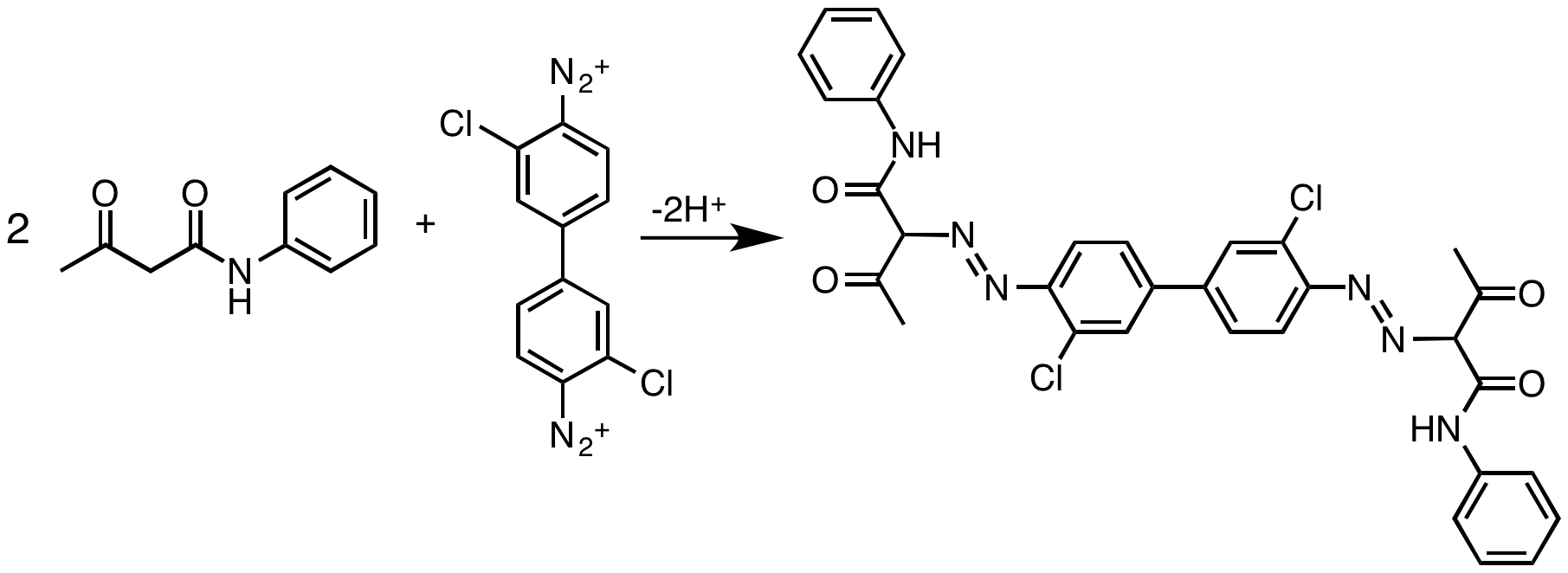 re-corrected prep of Pigment yellow 12